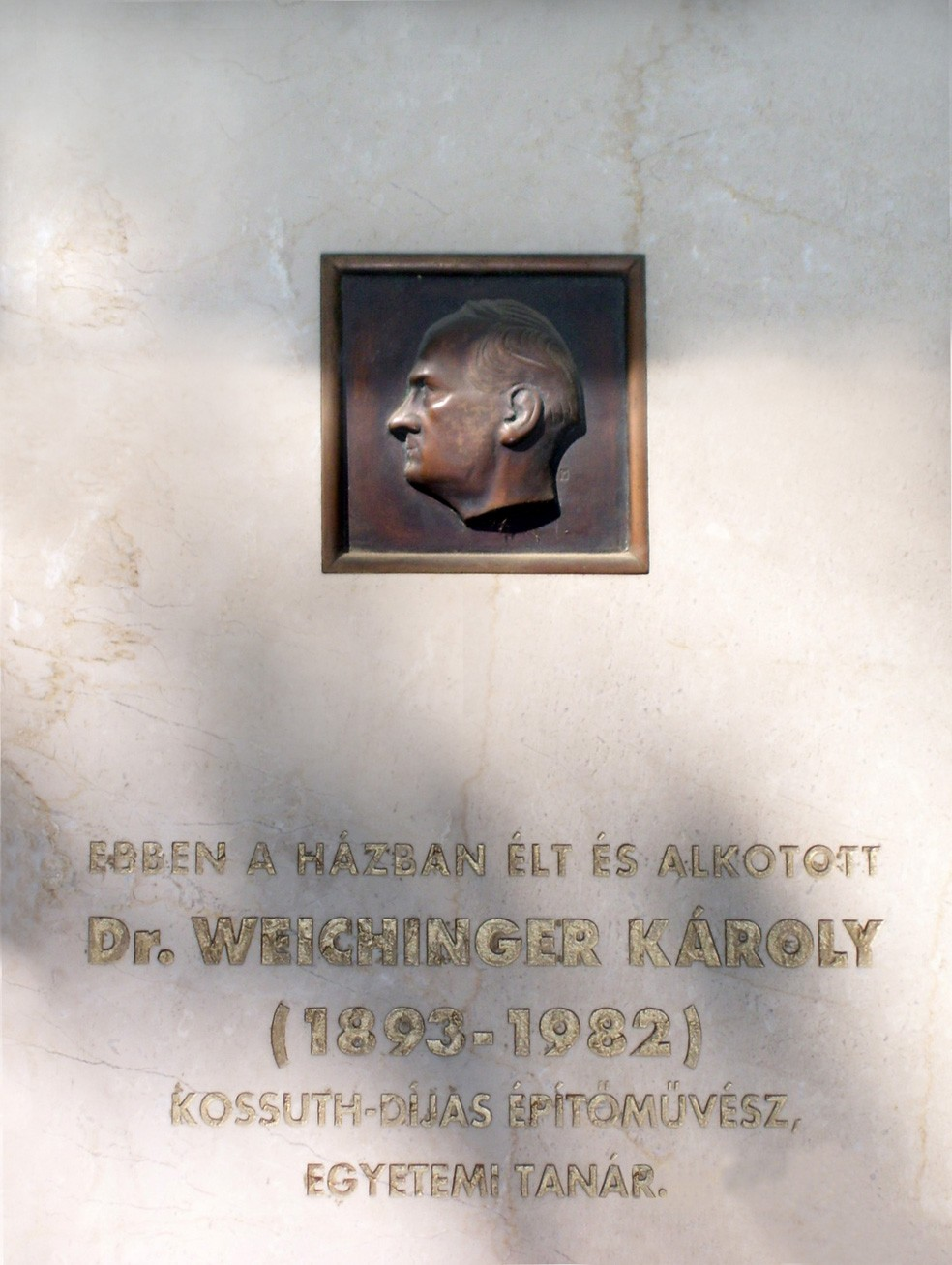 Commemorative plaque of Károly Weichinger, Budapest District XI, Mészöly Street No 5